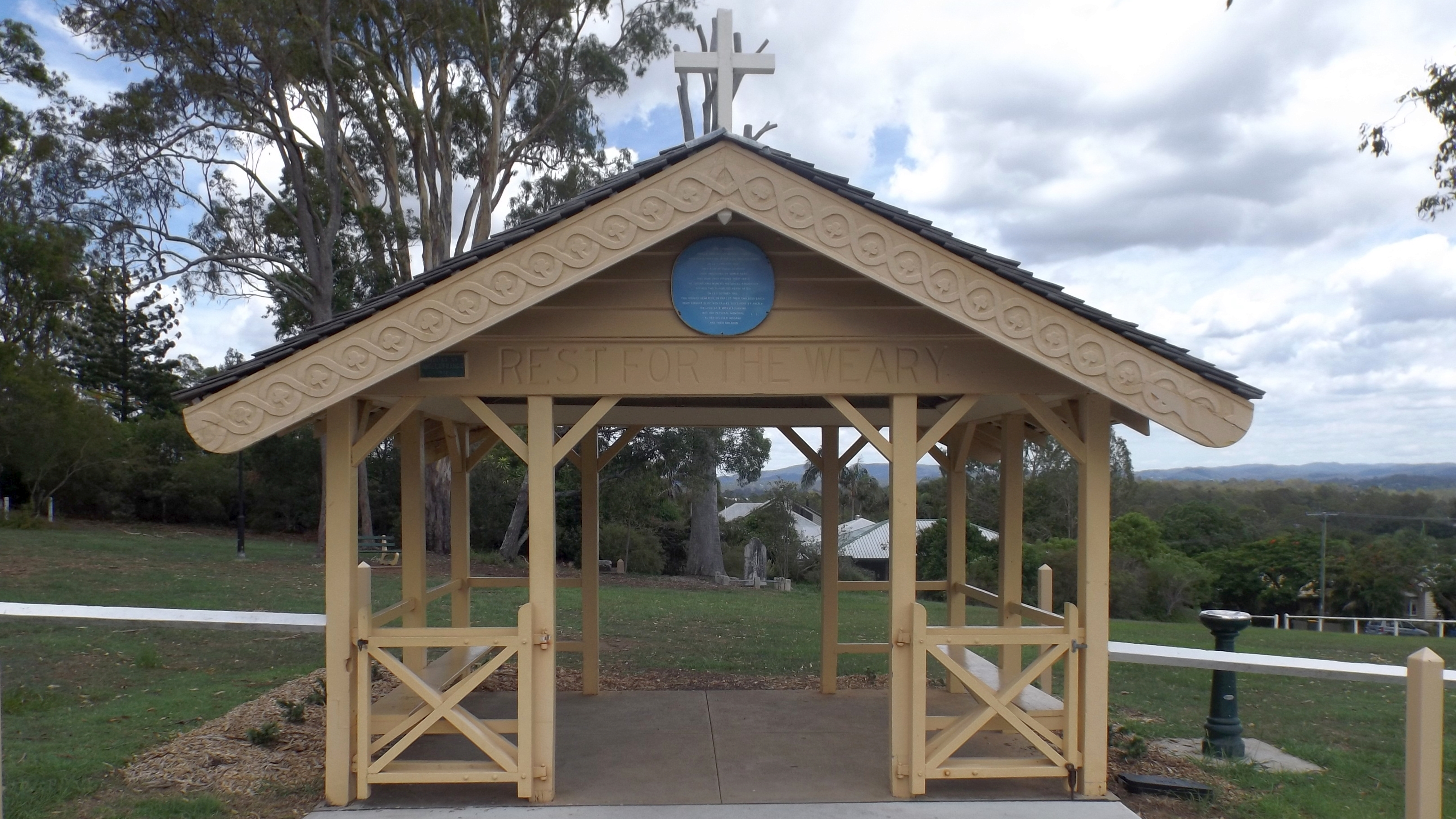 The lychgate at Francis Lookout in Corinda, Brisbane, Queensland, Australia.